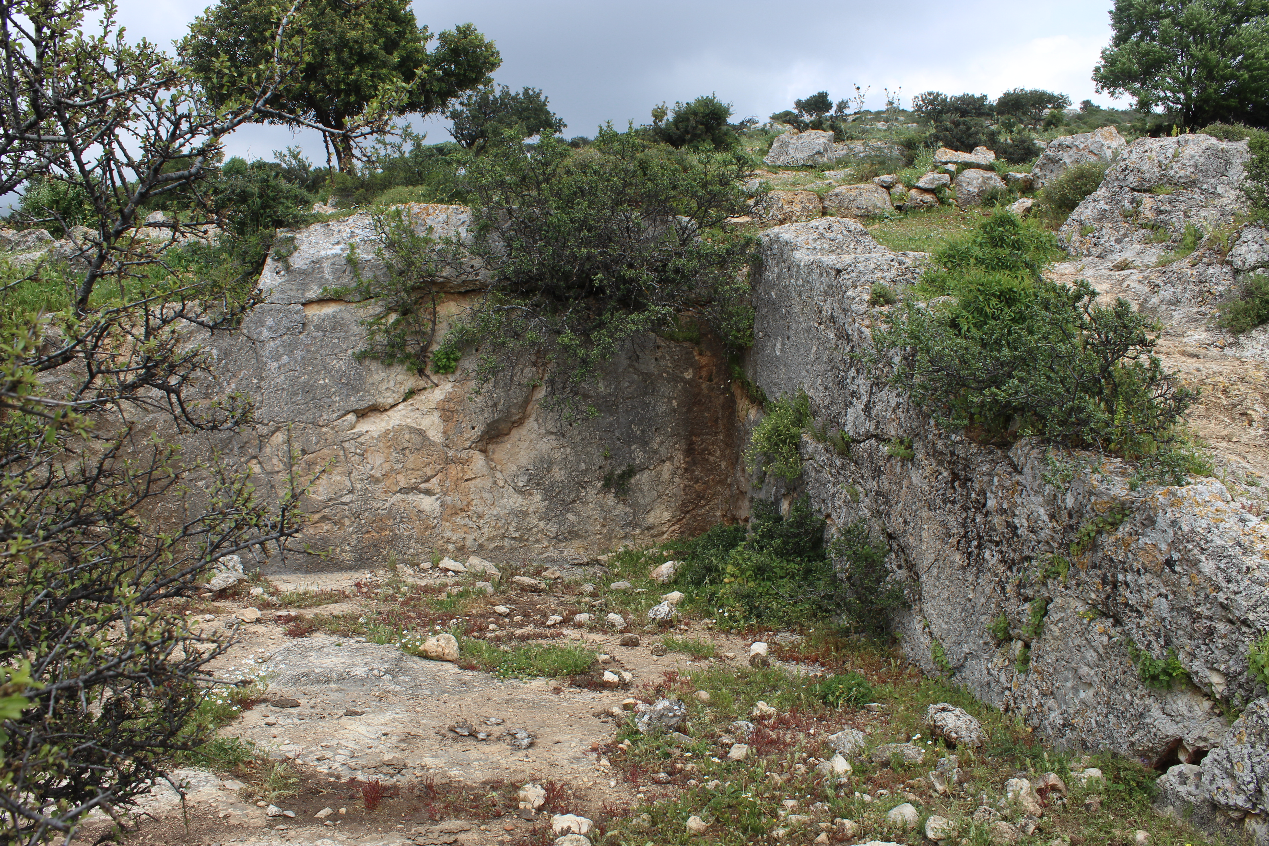 Synagogue ruin of old Kefar Hananiah (Kafr 'Inan), carved out of the rock